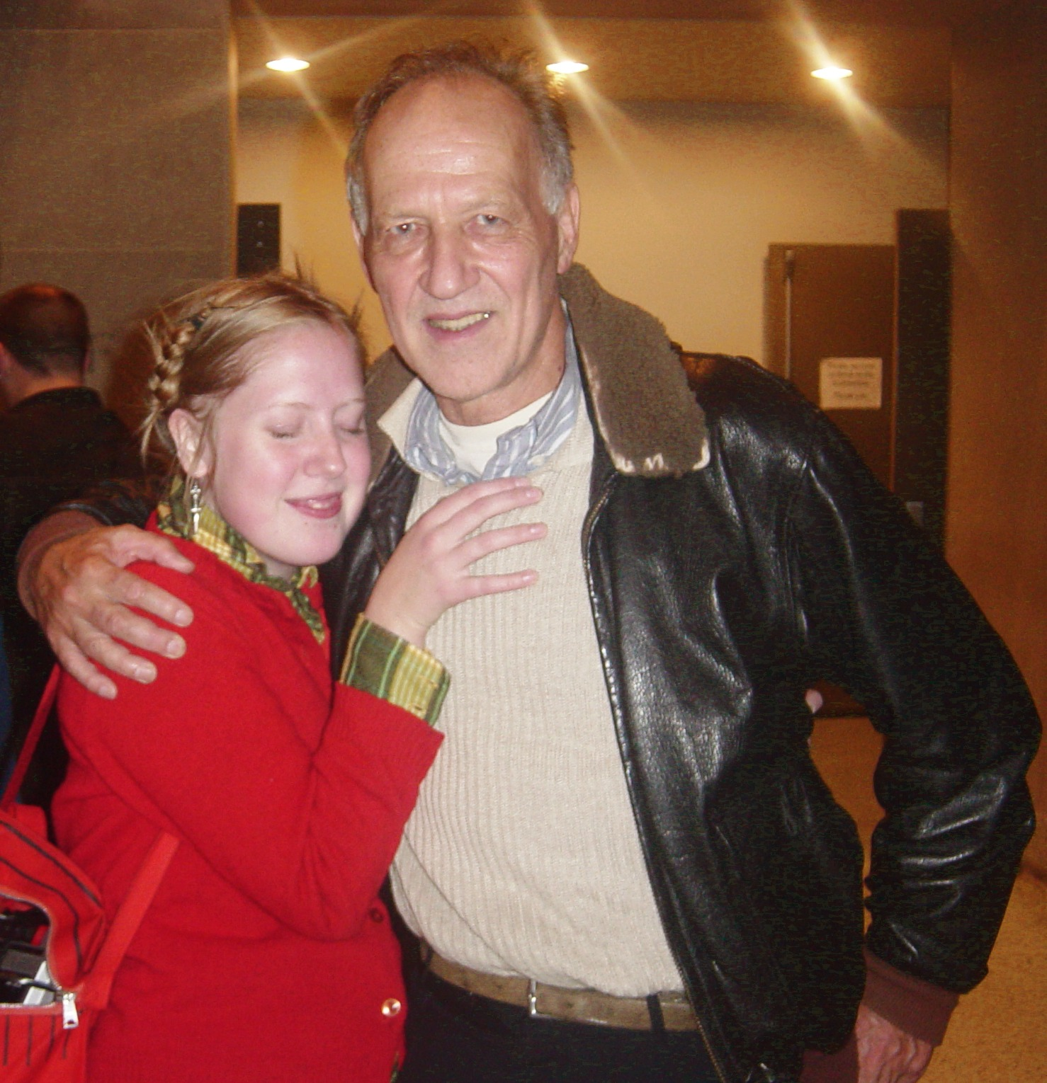 Filmmaker Werner Herzog at the US premiere of his films The White Diamond and The Wild Blue Yonder in Seattle, Washington.